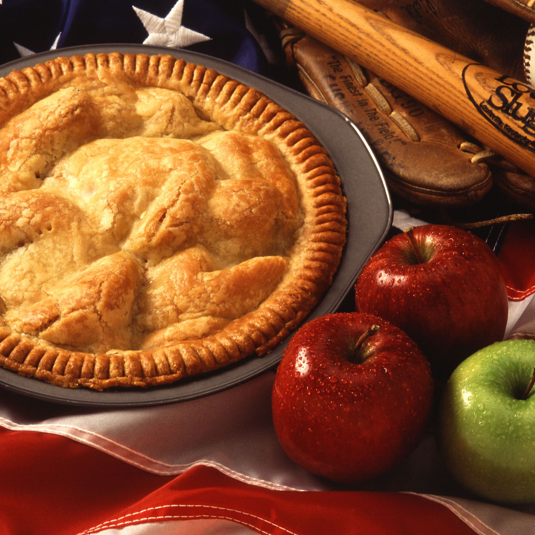 American cultural icons, apple pie, baseball, and the American flag